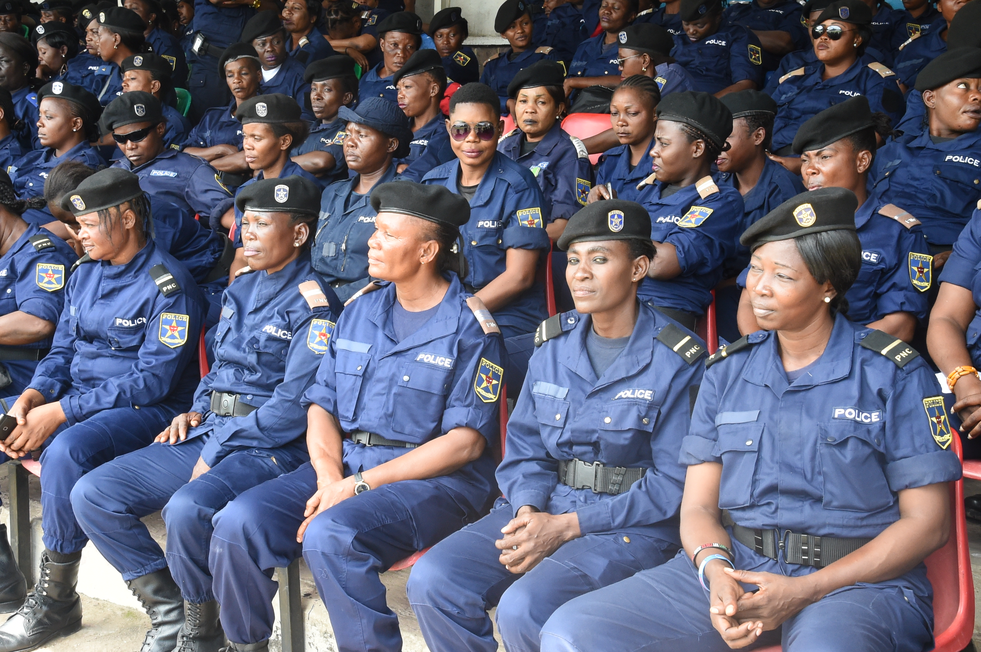 Celebration of International Women's Day at the Shark Club in Kinshasa